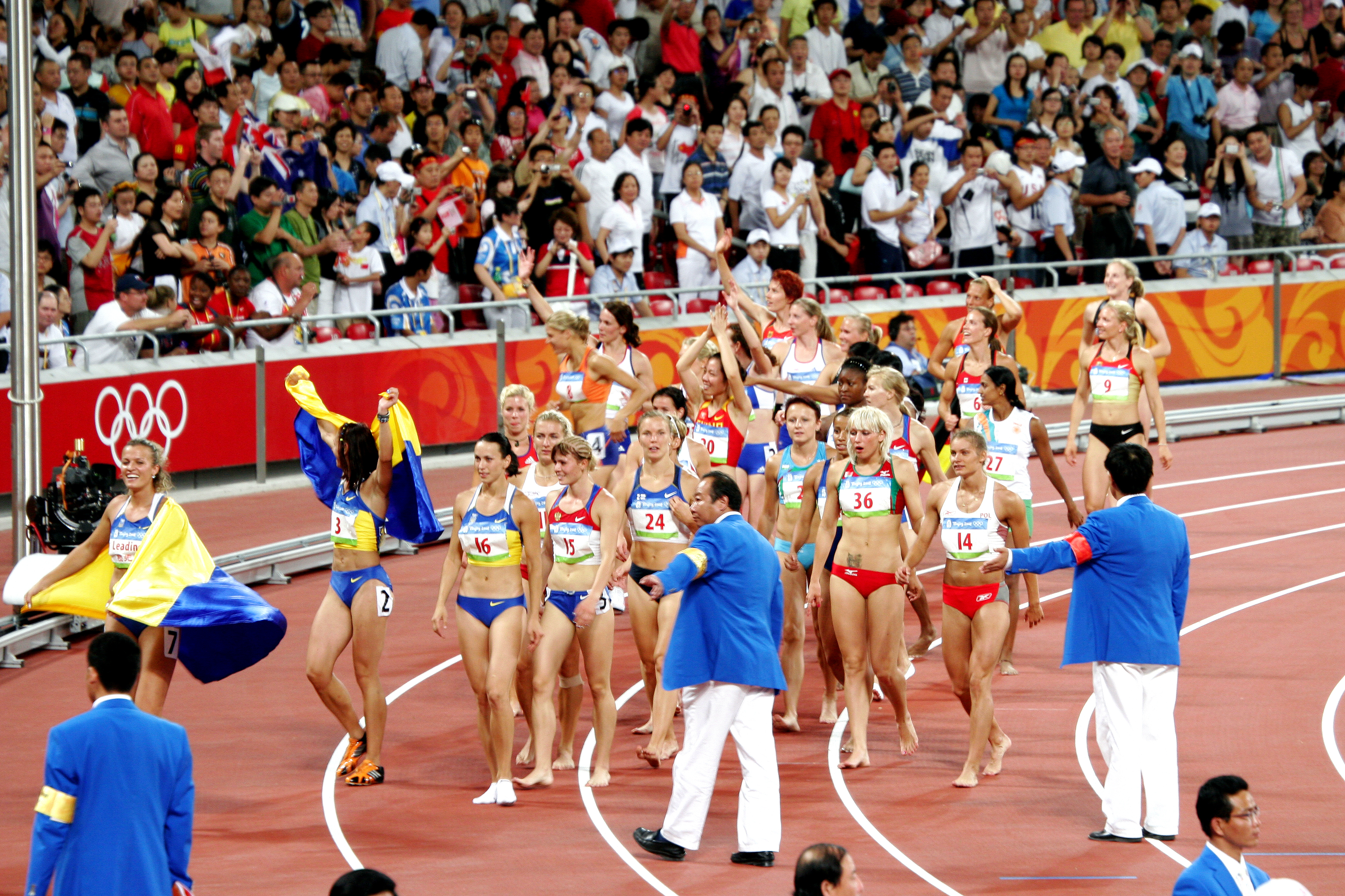 Women's heptathlon gold medalist Natalya Dobrynska of Ukraine walks with other competitors around the track inside the Bird's Nest.